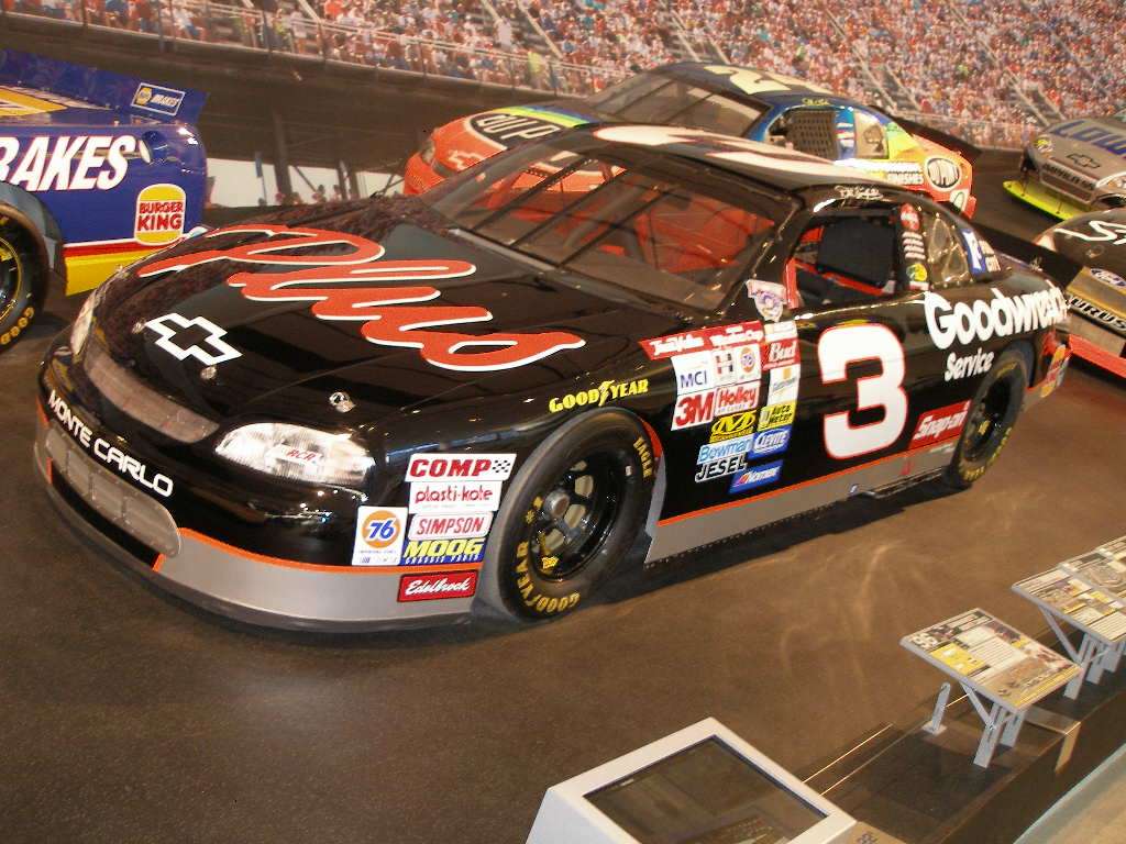 Dale Earnhardt